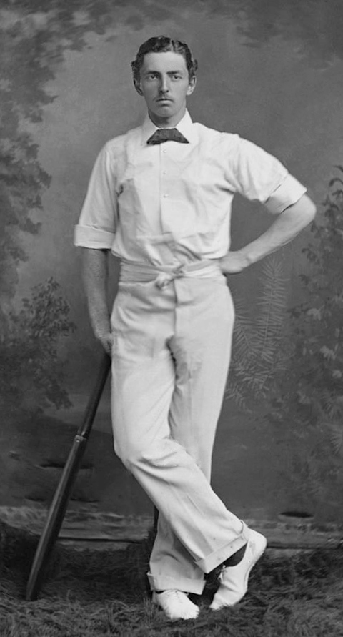 English cricketer Charles Studd (1860 - 1931), circa 1882. He died in the Belgian Congo, carrying out missionary work.